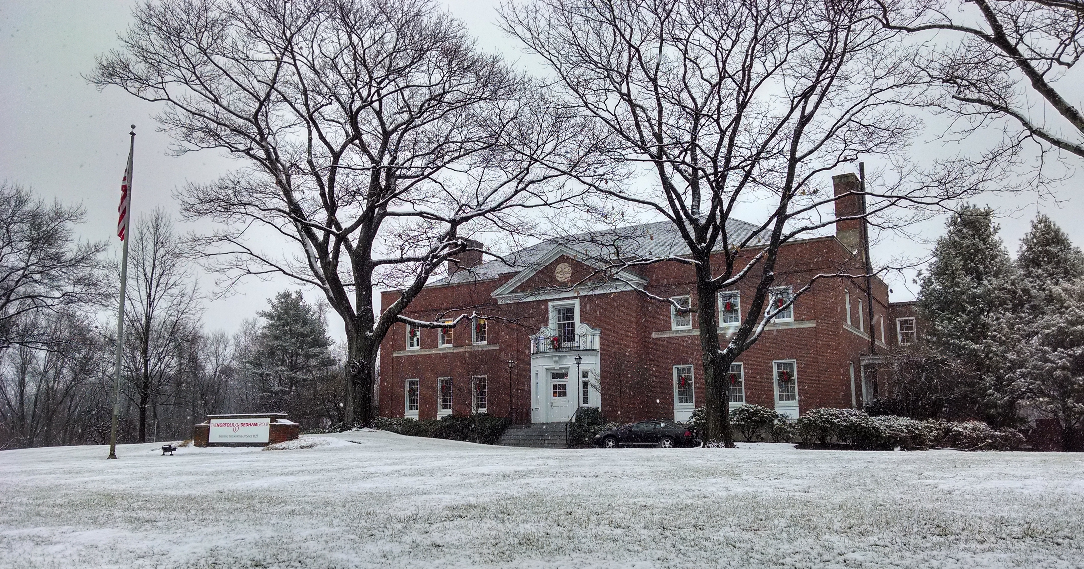 222 Ames Street, N&D Headquarters building in December